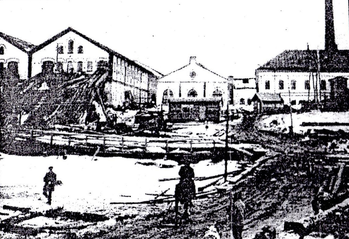 Surkov's factory